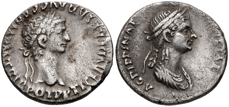 Claudius, with Agrippina Junior. AD 41-54. AR Denarius (18mm, 3.52 g, 6h). Rome mint. Struck AD 50-54. Laureate head of Claudius right Laureate and draped bust of Agrippina right. RIC I 81; RSC 4.